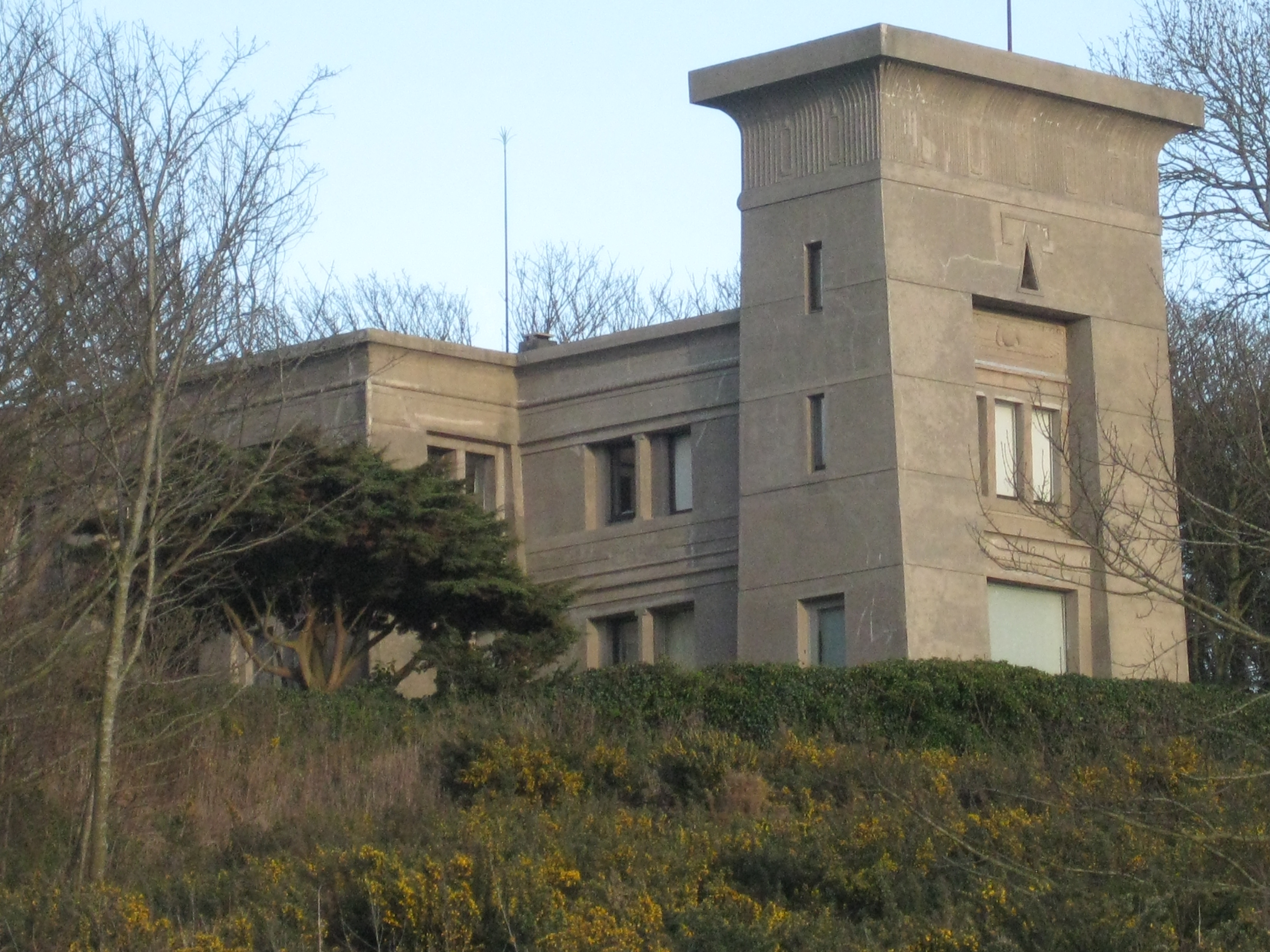 Typhonium at Wissant, Pas de Calais, France